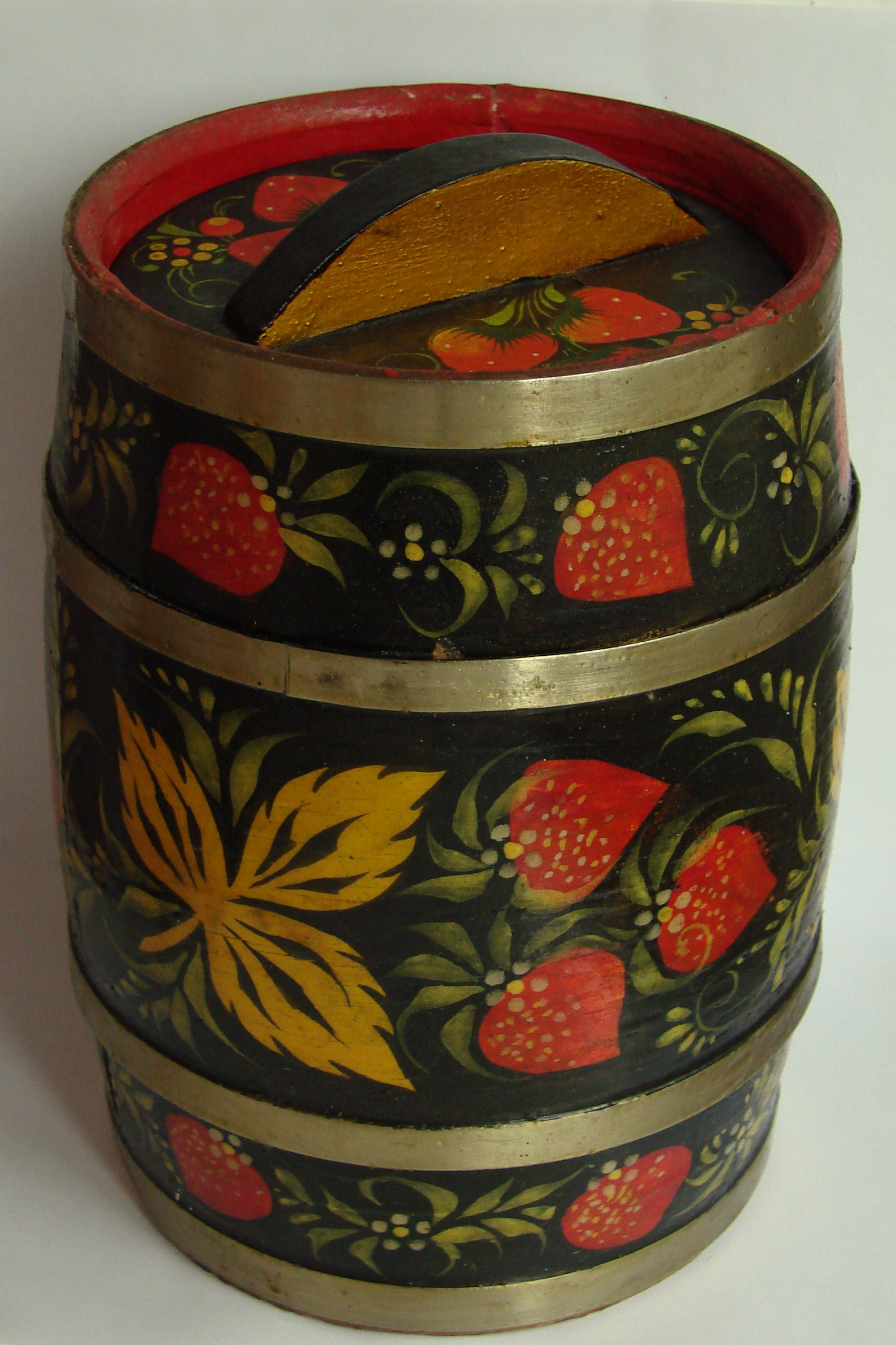 Vologda butter in barrell